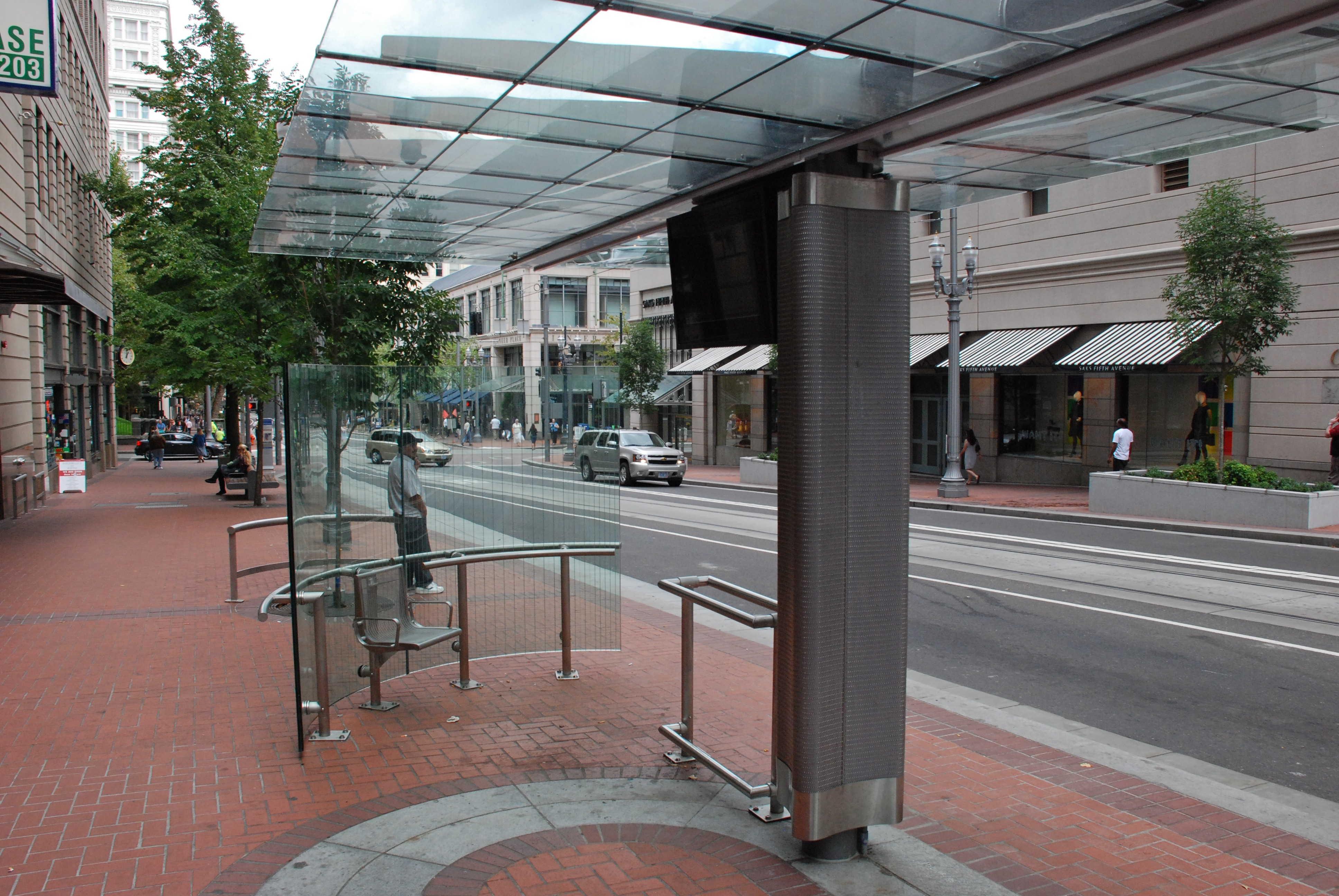 Passenger shelter at bus stop on the Portland Mall transit mall, specifically on 5th Avenue just north of Taylor Street. This new design replaced an old shelter design that had been in use from 1977 to 2007. It is much more open than the old design, giving better visibility but much less protection from the weather.